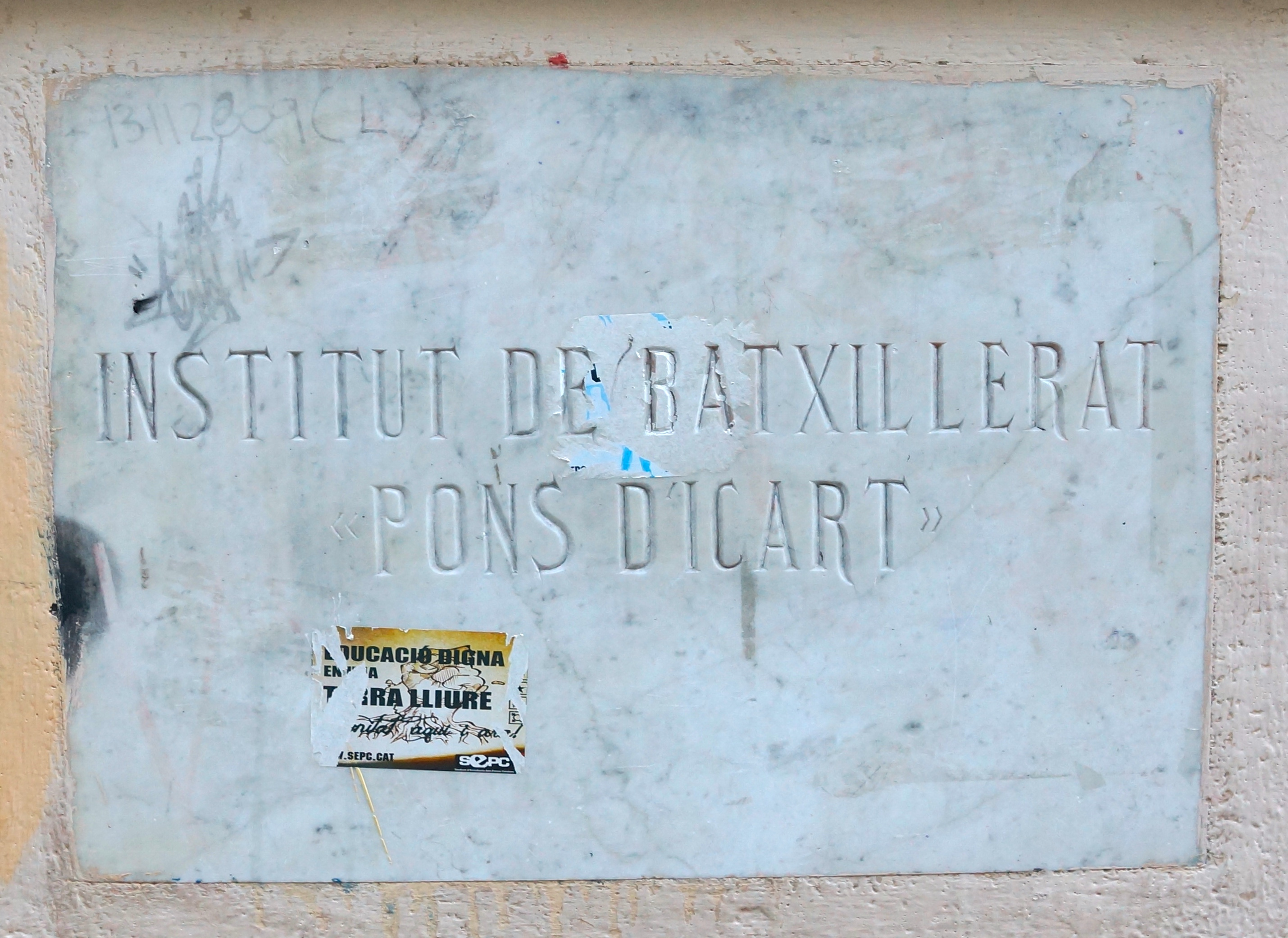 Tarragona, Catalonia: Plaque at the Lluís Pons d'Icart Bachelor's Institute